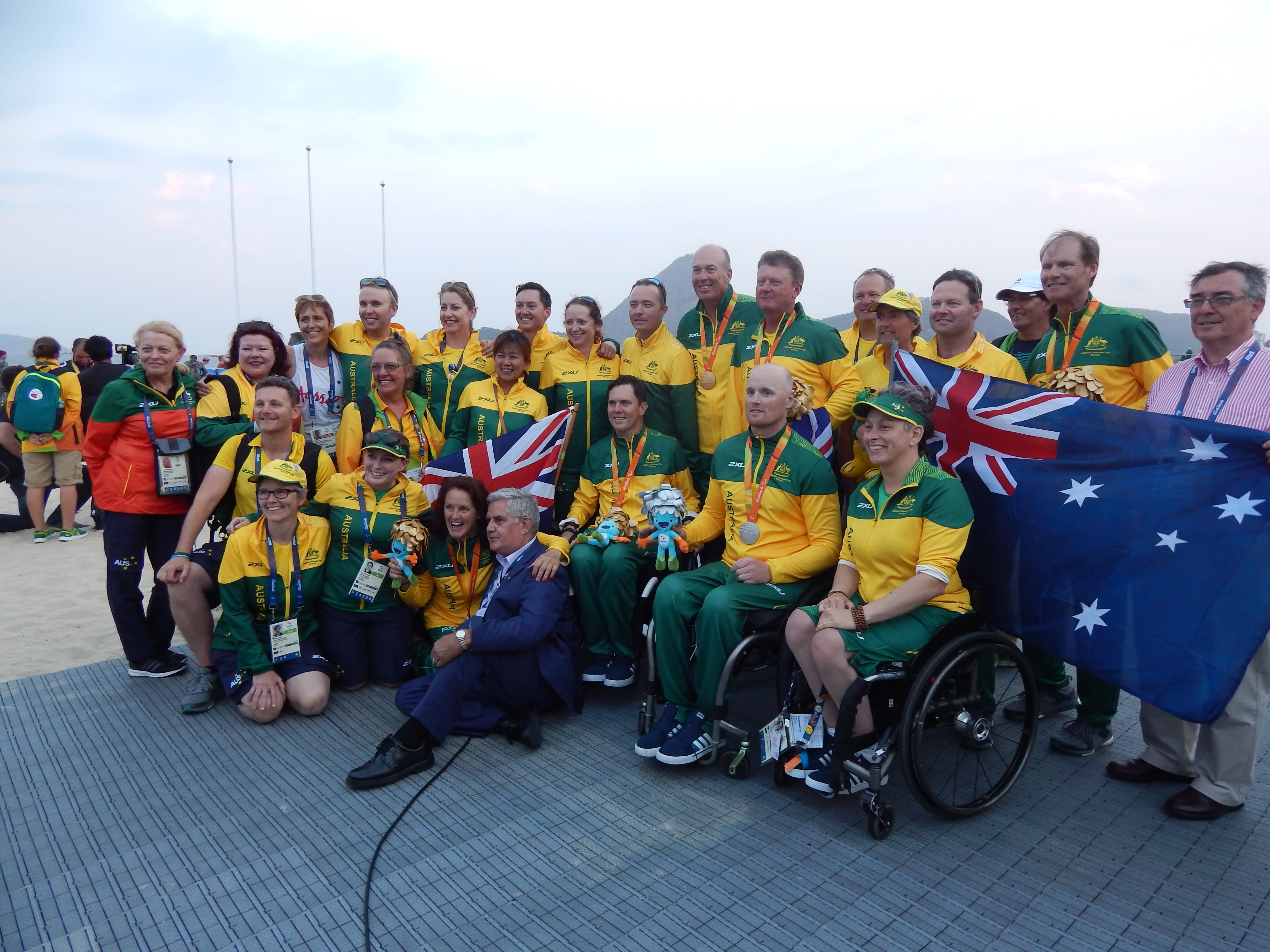 Australia's six medallists in sailing with officials at the sailing at the 2016 Paralympics. Medallists are: Matthew Bugg, Daniel Fitzgibbon Liesl Tesch, Colin Harrison, Russell Boaden and Jonathan Harris. Officials include Ken Wyatt (Assistant Minister for Health and Aged Care), Kate McLoughlin (Australian Chef de Mission) and Daniela Di Toro (team captain)